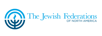 The logo of United Jewish Communities.